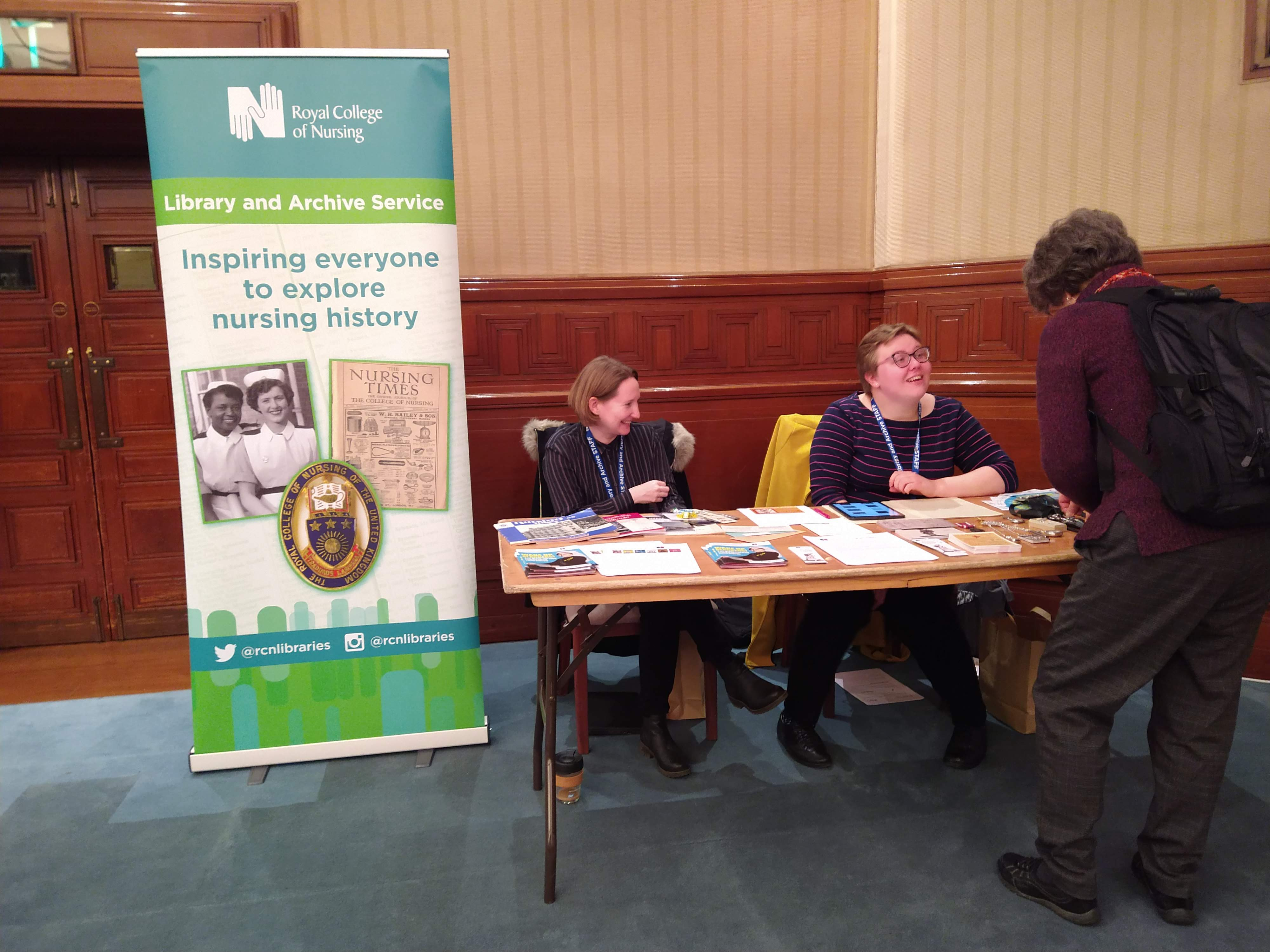 University of London School of Advanced Study History Day 2019